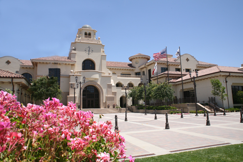 Temecula City Hall located in Old Town Temecula.